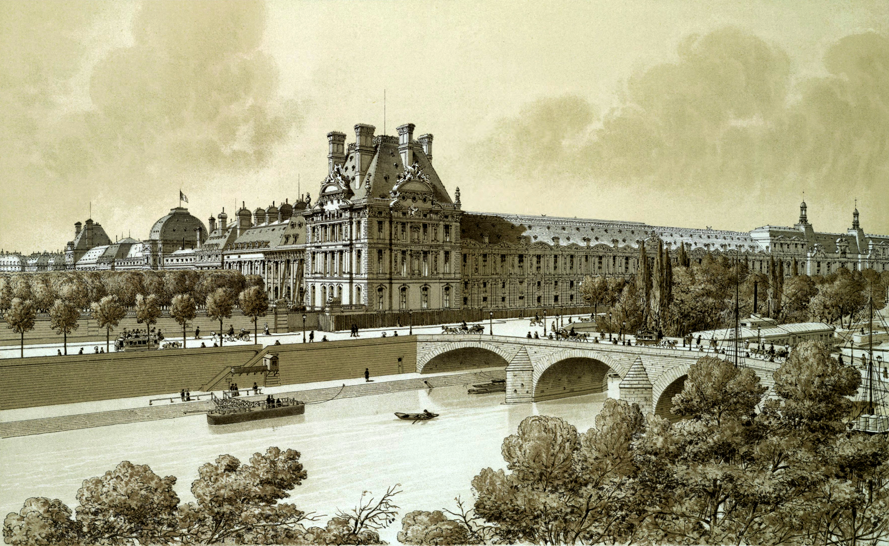 "Starting with Napoléon I, the Palais des Tuilerlies was the official residence of the French leader. In 1871, however, it was destroyed in a fire set by the Communards. The fire completely gutted the building, but the walls remained standing until 1884. Fragments of the palace may be seen at the École des Beaux-Arts and the École des Ponts et Chaussées. As was typical of the period, elaborate gardens provided private walking space for the residents of the palace. André LeNôtre designed the current layout of the gardens."